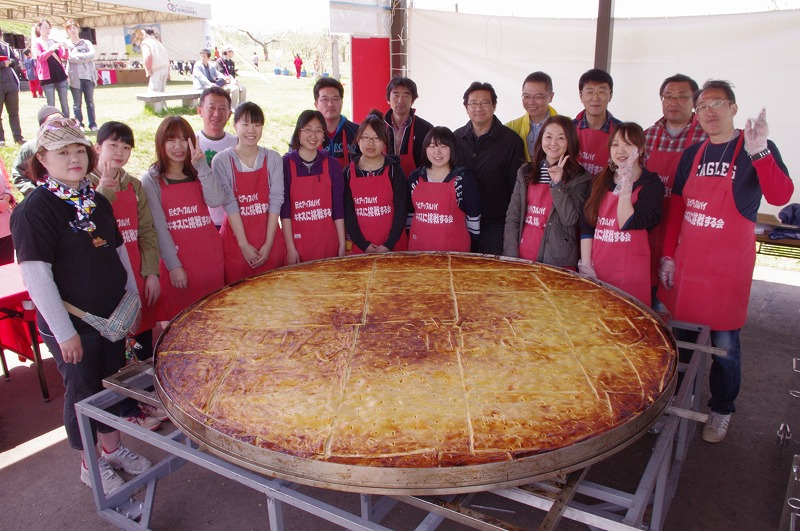 2m Apple pie.